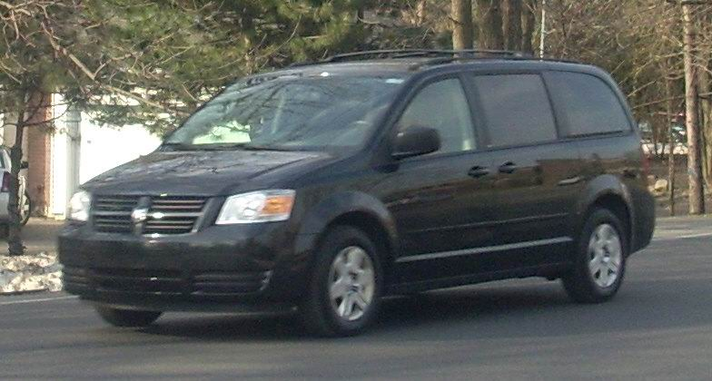 2008 Dodge Grand Caravan photographed in Montreal, Quebec, Canada.